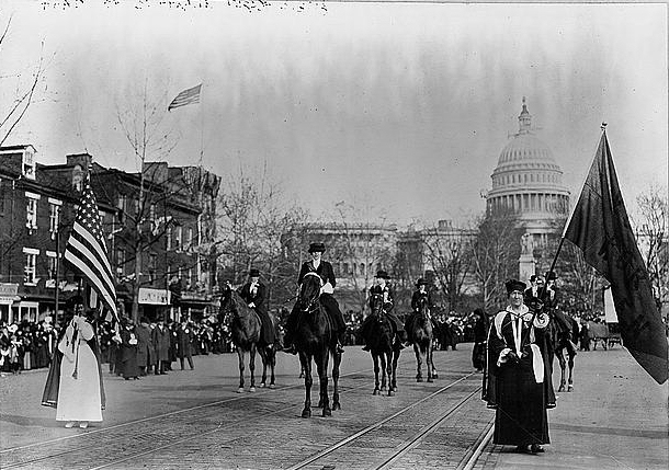 Members of the National American Women Suffrage Association, seeking the right to vote in elections, march down Pennsylvania Avenue NW in Washington, D.C., in the United States on March 3, 1913.